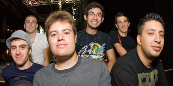 Set Your Goals (band) @ The House Of Blues in Orlando, Florida in the fall of 2007.